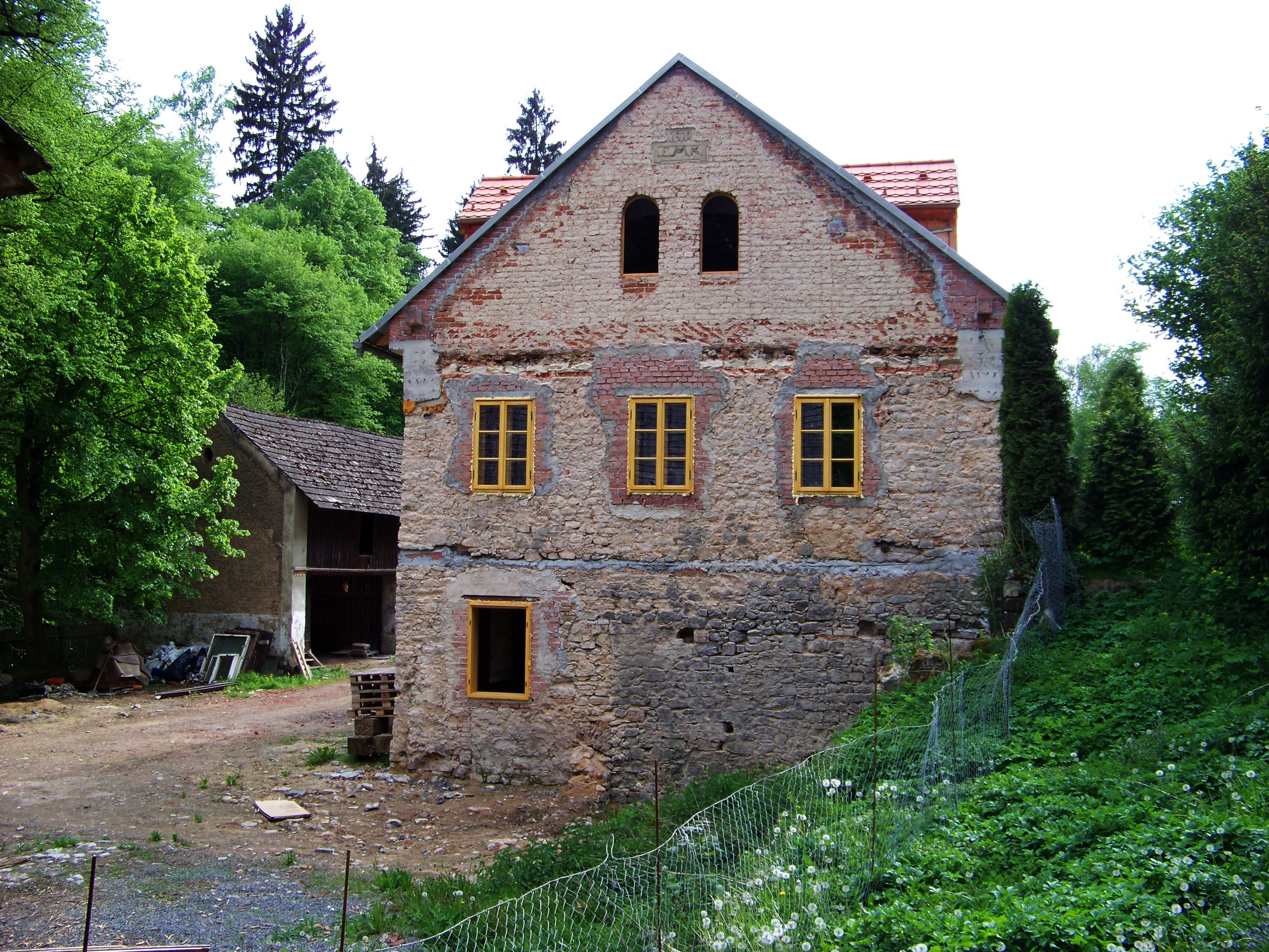 Ořech, Prague-West District,Central Bohemian Region, the Czech Republic. Kalina's Millhouse.